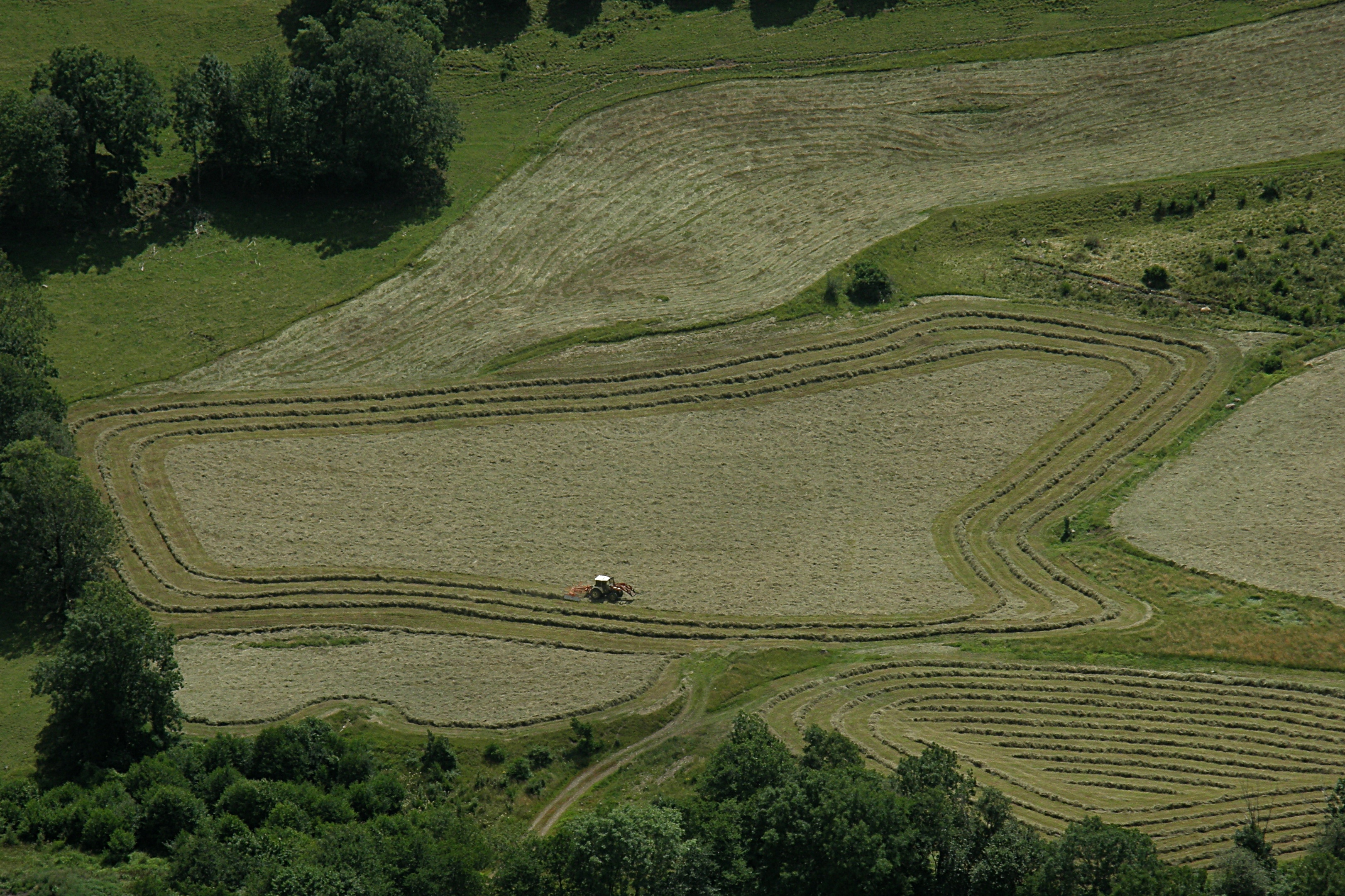 Haymaking, Vallée de la Maronne, Cantal, France